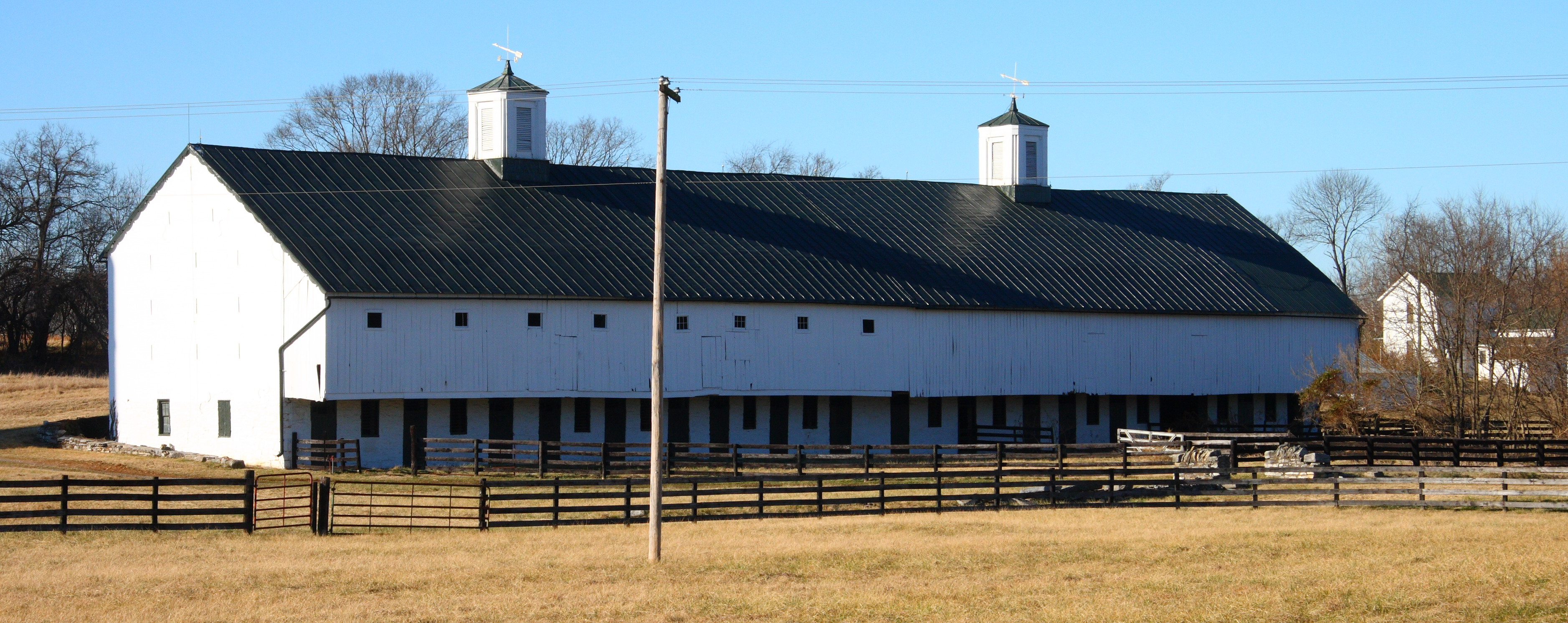 Bank barn at Altona farm, Charles Town, West Virginia, USA